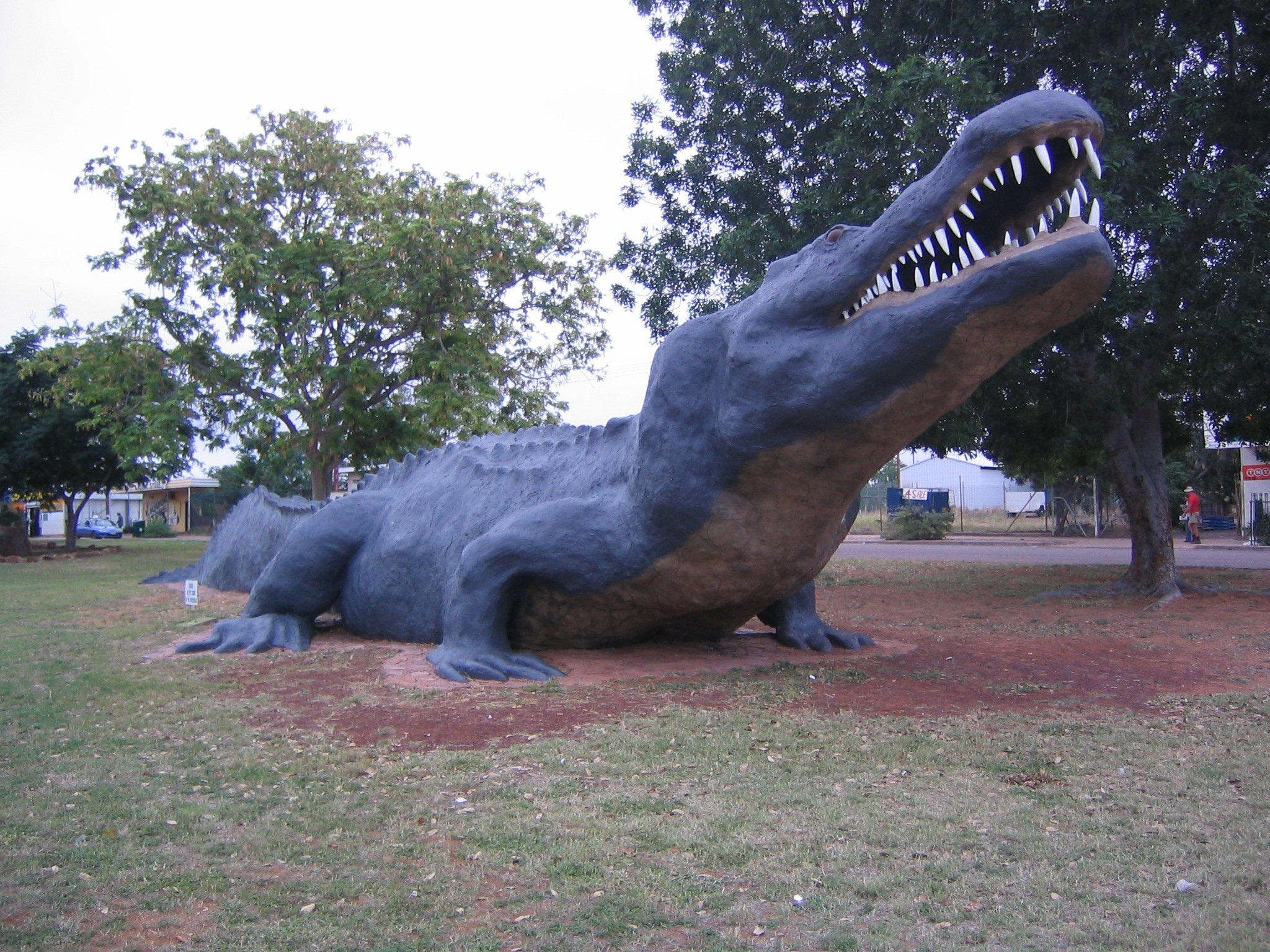 Wyndham, The Kimberley